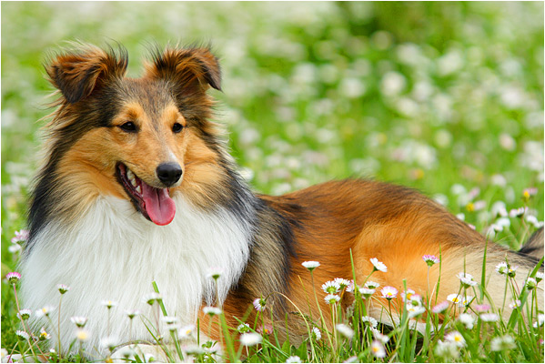 Canaille - Berger shetland de 12 mois